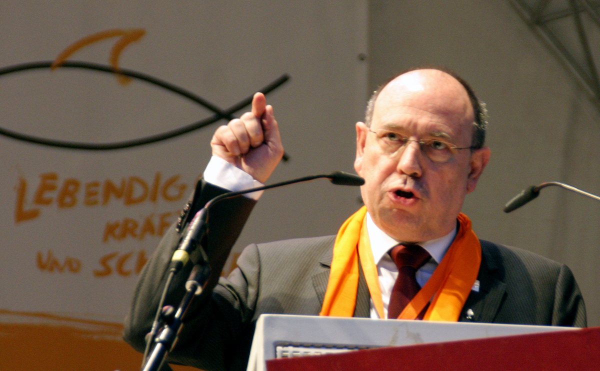 Nikolaus Schneider, Präses of the protestant church of the Rhineland, 2007 in Cologne